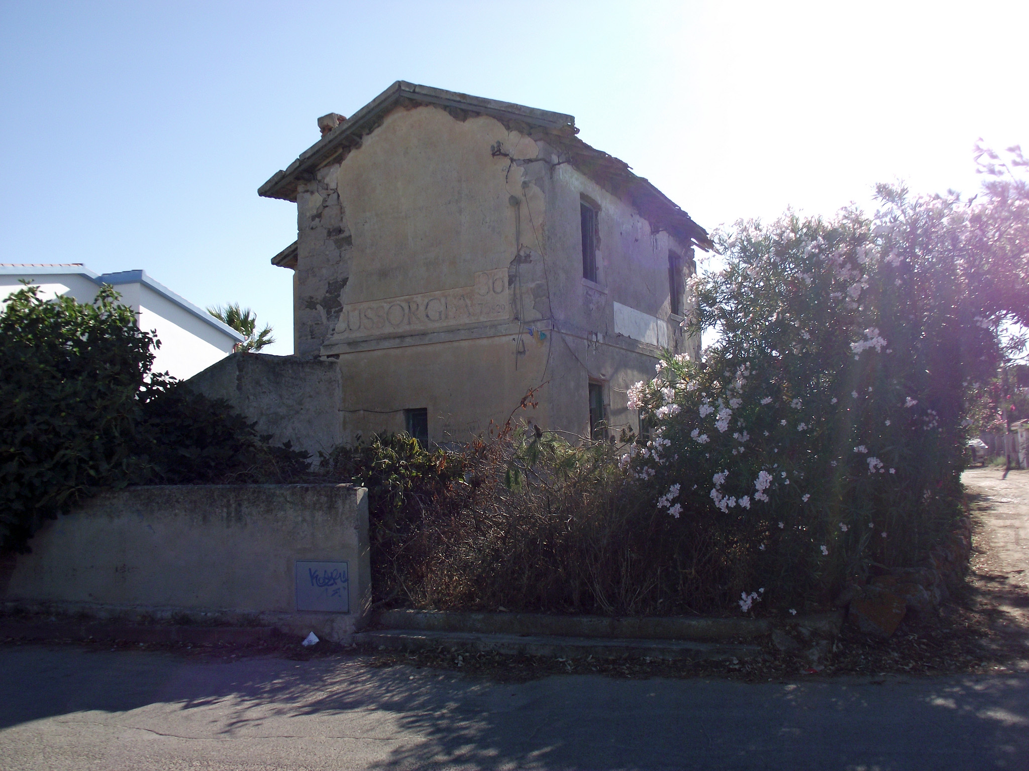 The former railway halt of Cussorgia, in the homonymous hamlet of Calasetta municipality, in Sardinia, Italy, closed in 1974